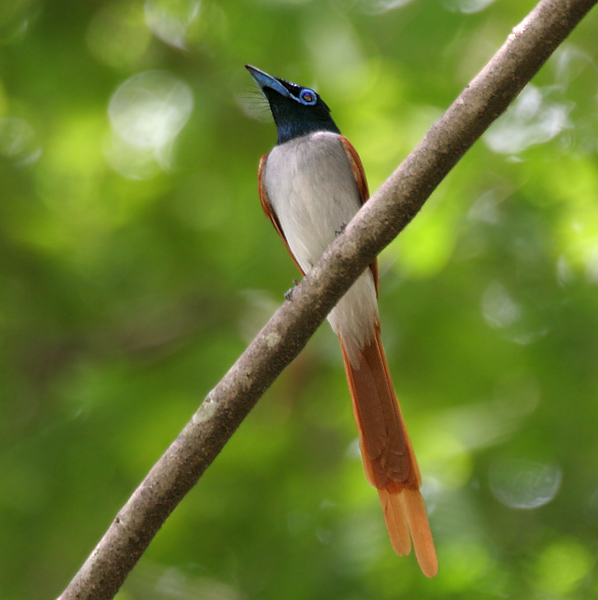 Asian Paradise-flycatcher or Common Paradise-flycatcher Terpsiphone paradisi at Ananthagiri Hills, in Rangareddy district of Andhra Pradesh, India.